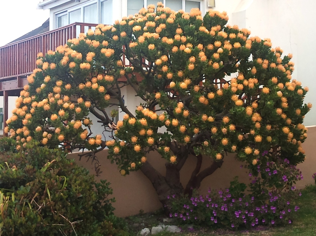 Leucospermum conocarpodendron viridum in garden. Western Cape. SA.